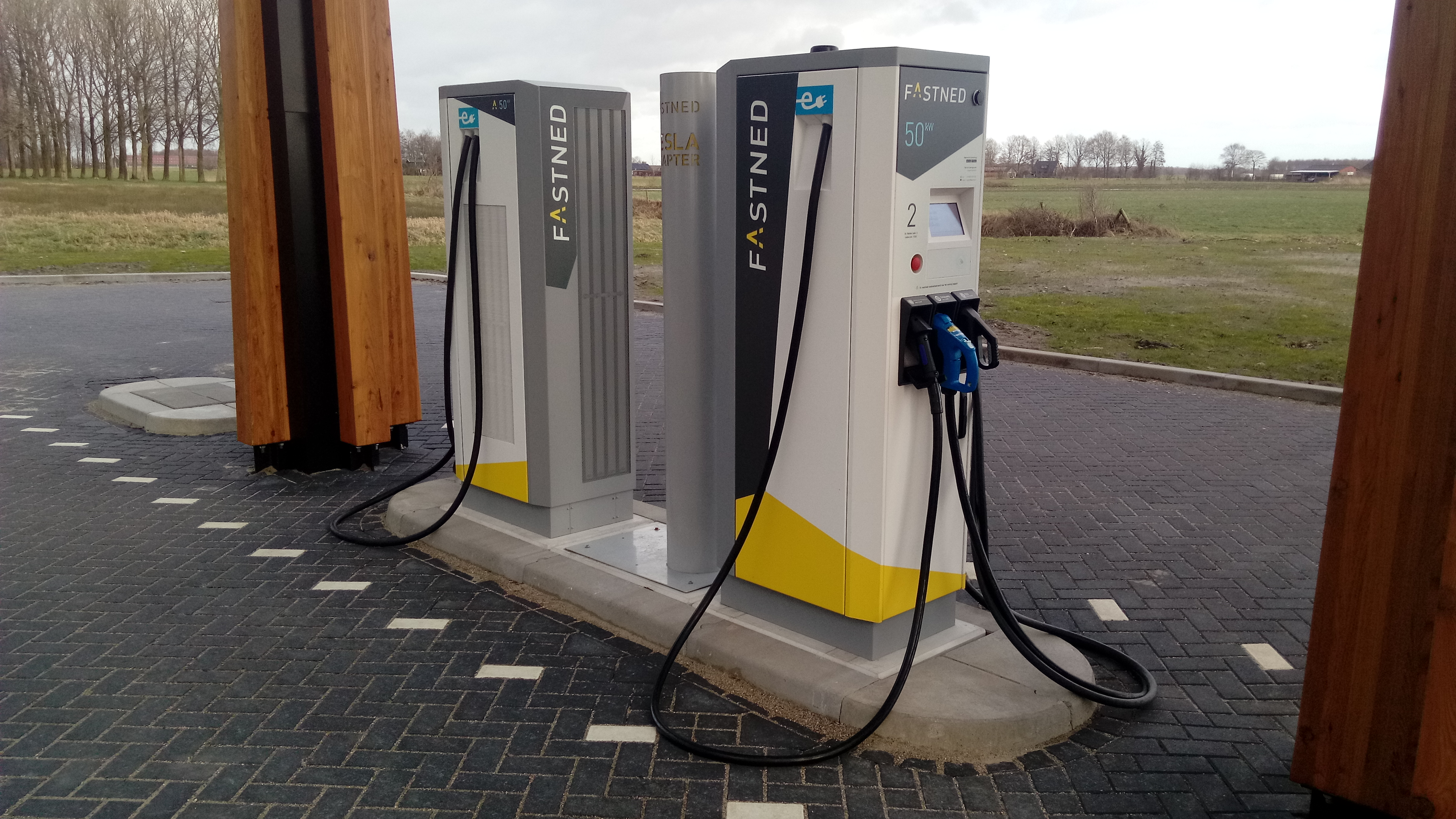 A local charging station for electric vehicles in the Frisian area of De Wâlden ("The Woods").